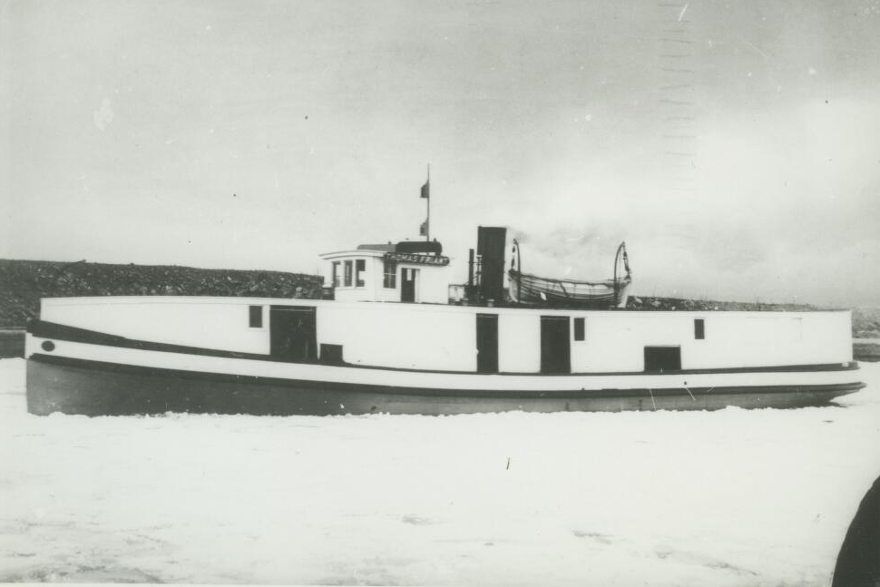 The steamer Thomas Friant before she sank